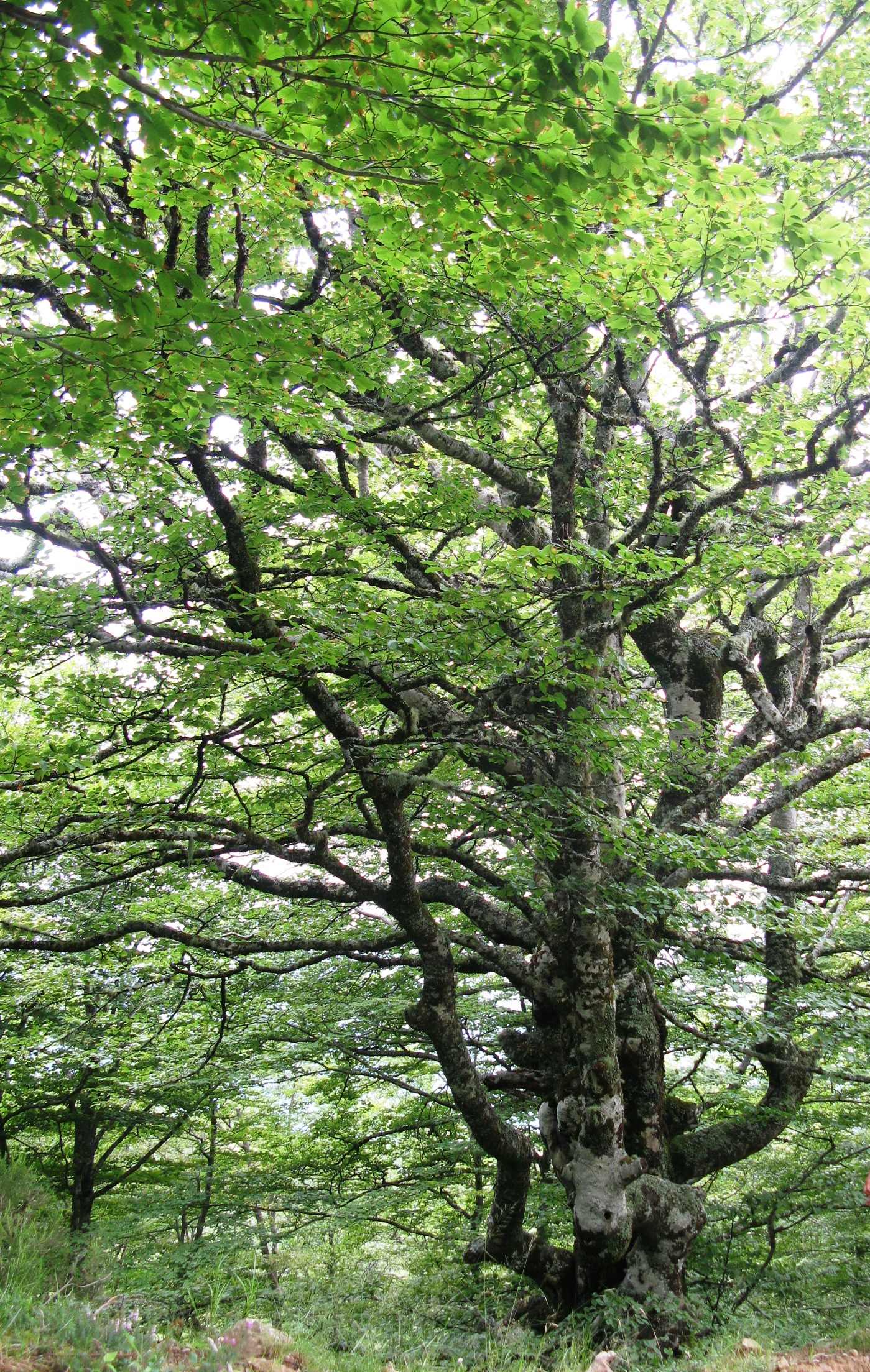 This is a photography of a Special Area of Conservation in Spain with the ID: ES1200008. Natura2000 entry, EEA entry